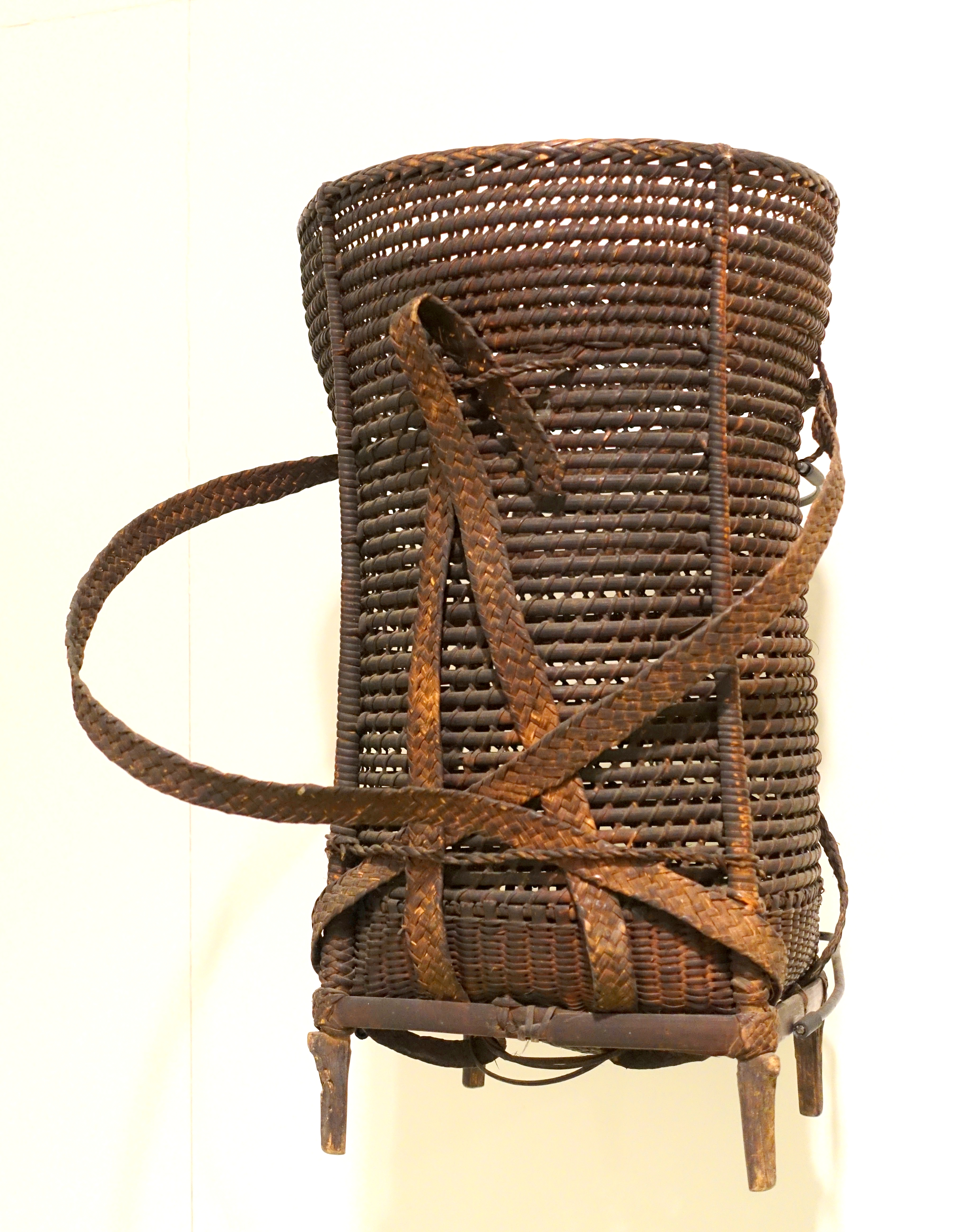 Exhibit in the Vietnamese Women's Museum, Hanoi, Vietnam.